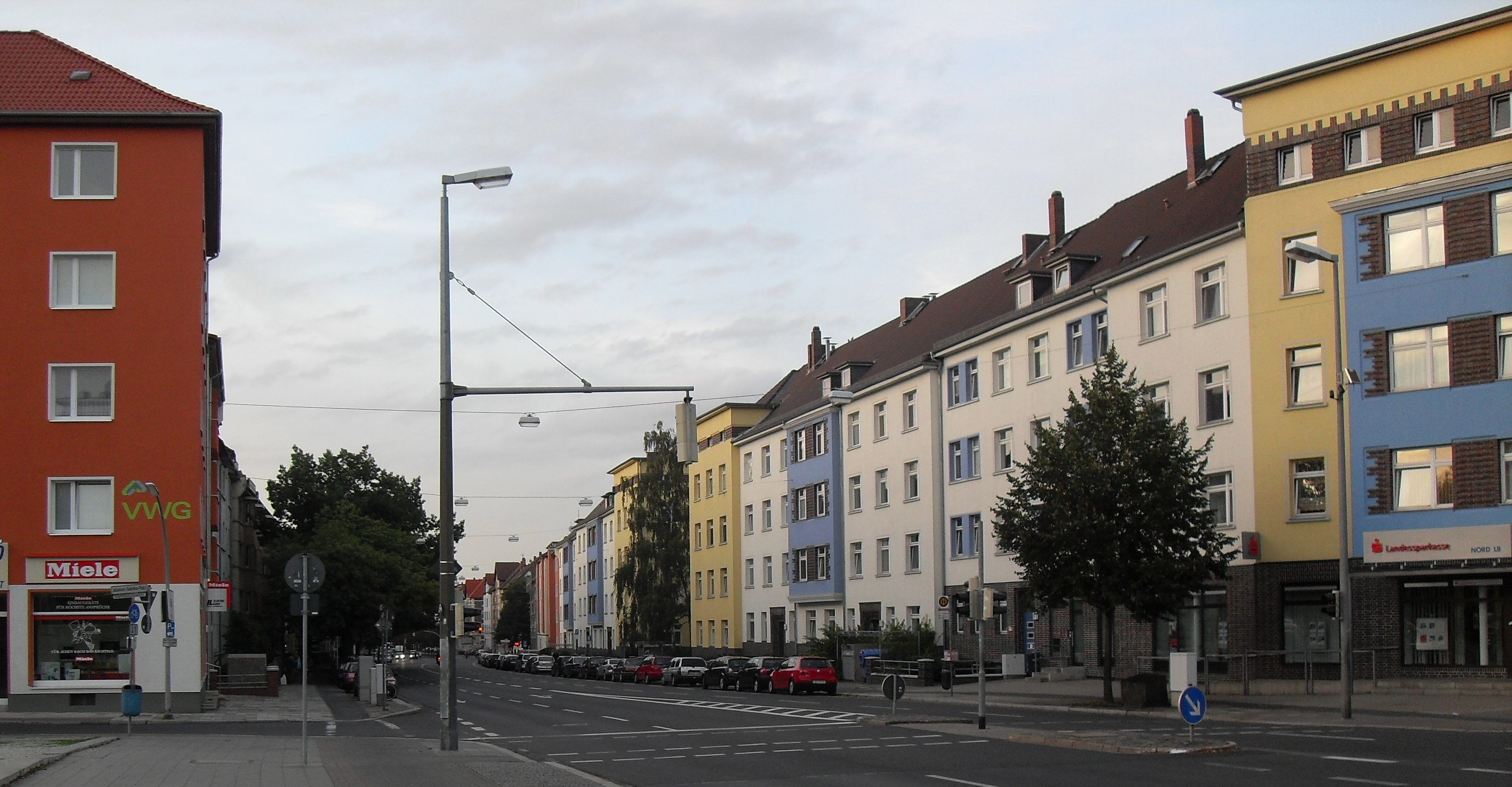 The Altstadtring in Braunschweig